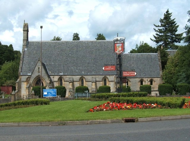 St Mary's Church St Mary's Scottish Episcopal Church. Looking north across the roundabout, from entrance road to golf course.